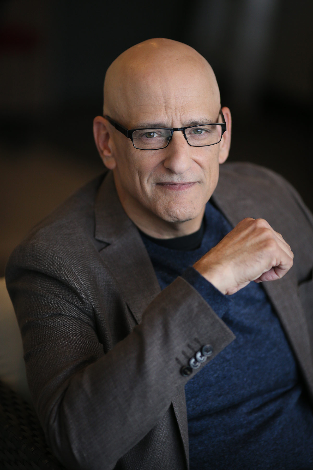 Andrew Klavan Headshot